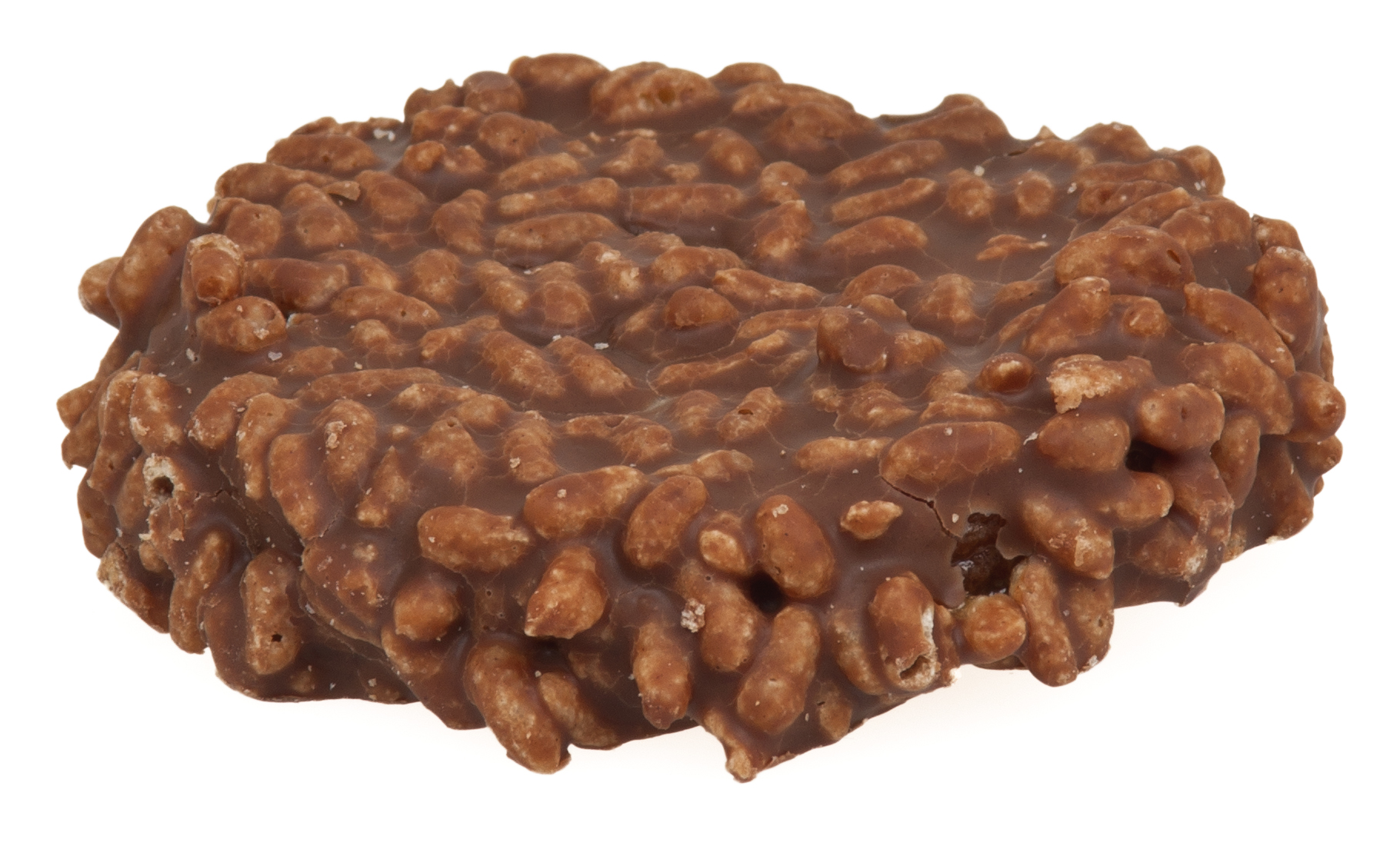 A Little Debbie Star Crunch, a chocolate, caramel and crisped rice snack.